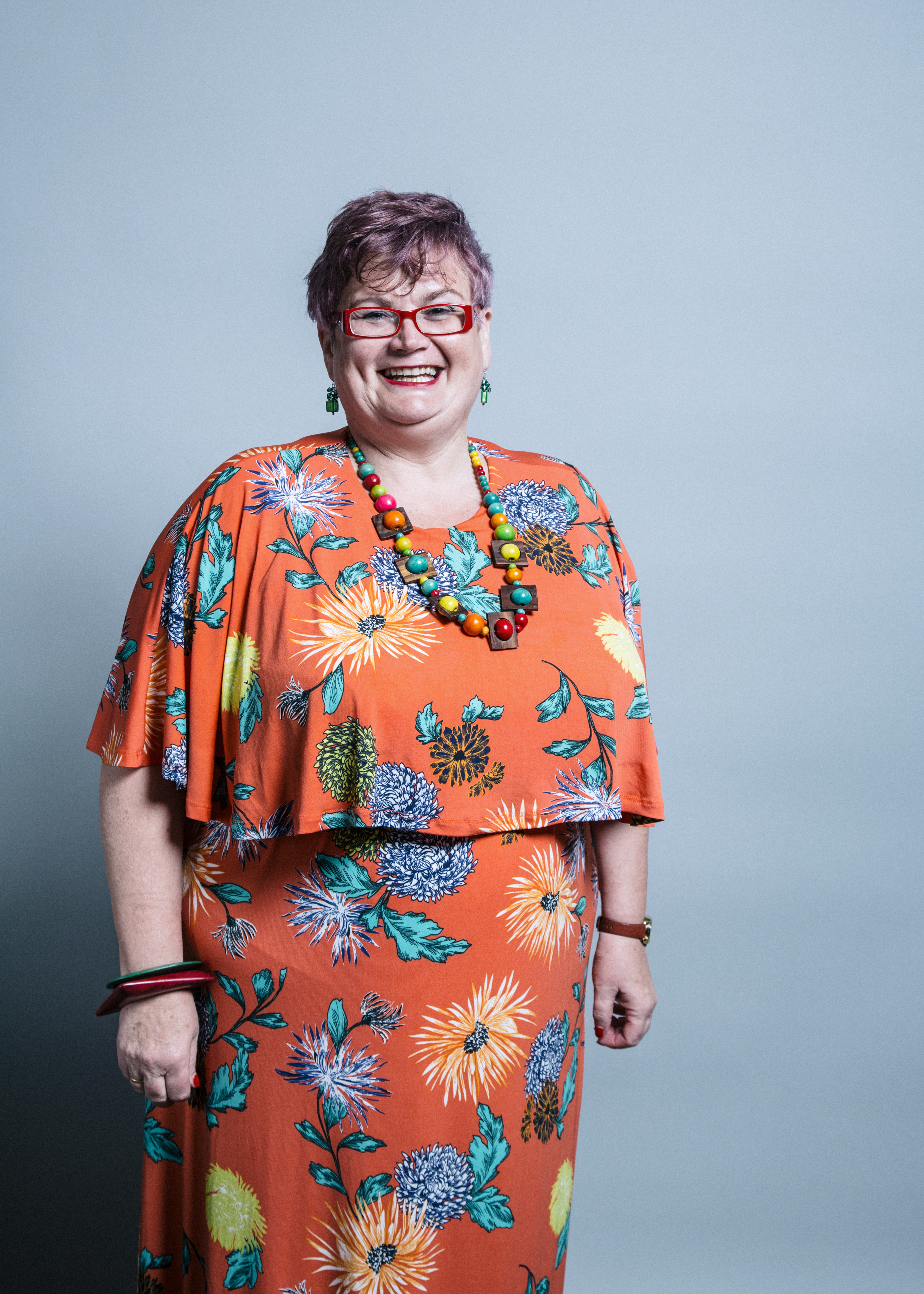 Official portrait of Carolyn Harris